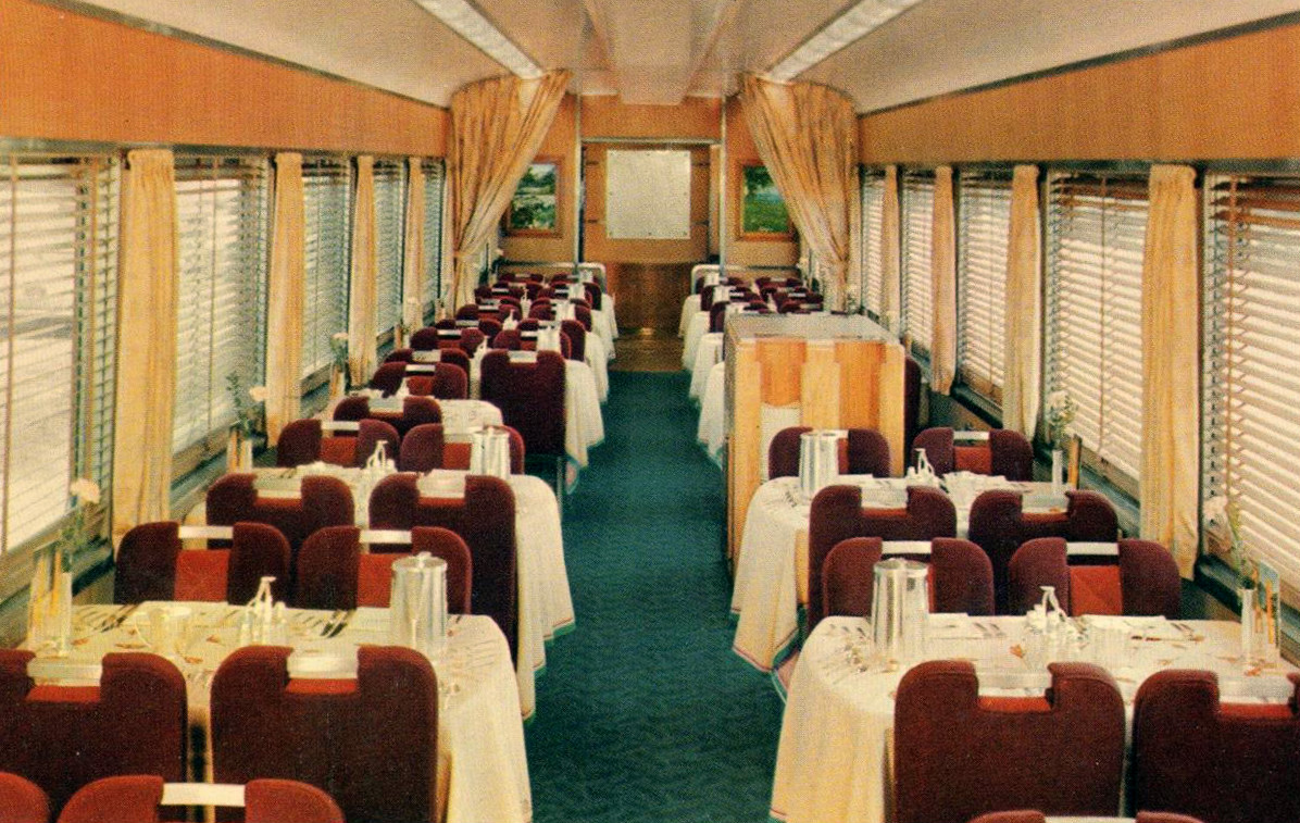 Photo postcard of the dining car of the Southern Pacific's Shasta Daylight.